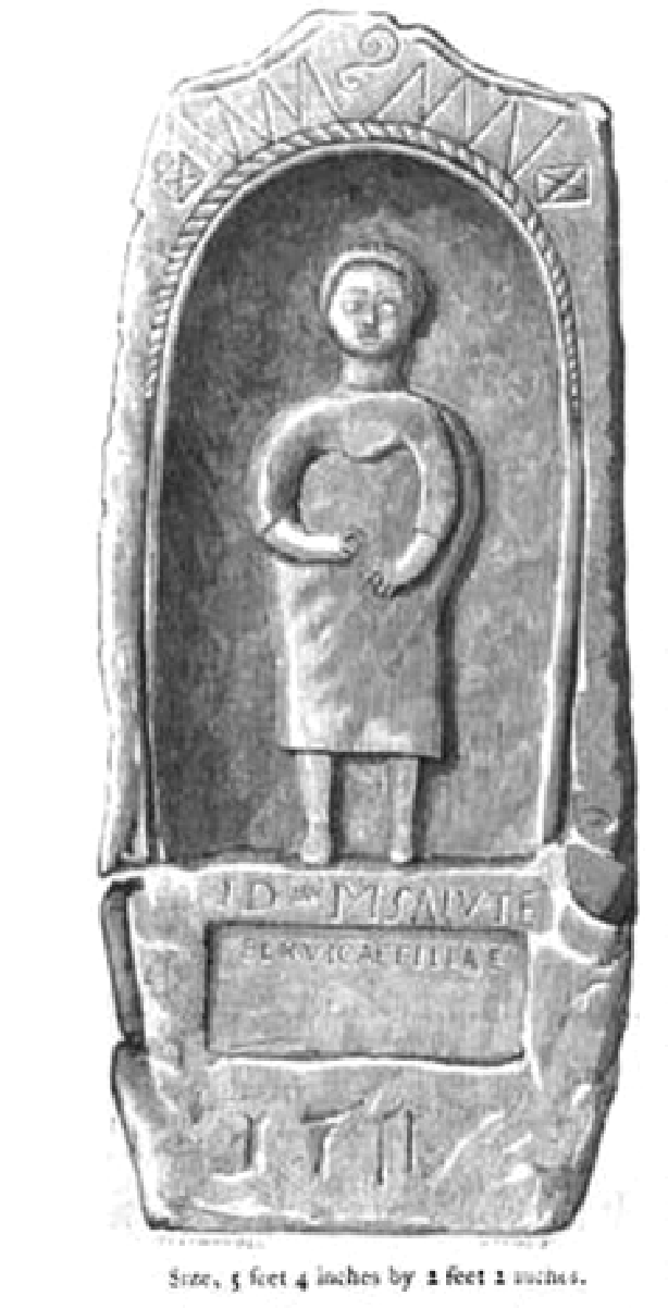 Roman tombstone of Pervicae (AD 43-410), found before 1732 near Walltown Mill, south-east of Great Chesters fort (Hadrians Wall). Inscription: To the spirits of the departed (and) to his daughter Pervica … RIB 1747, now in the Great North Museum.